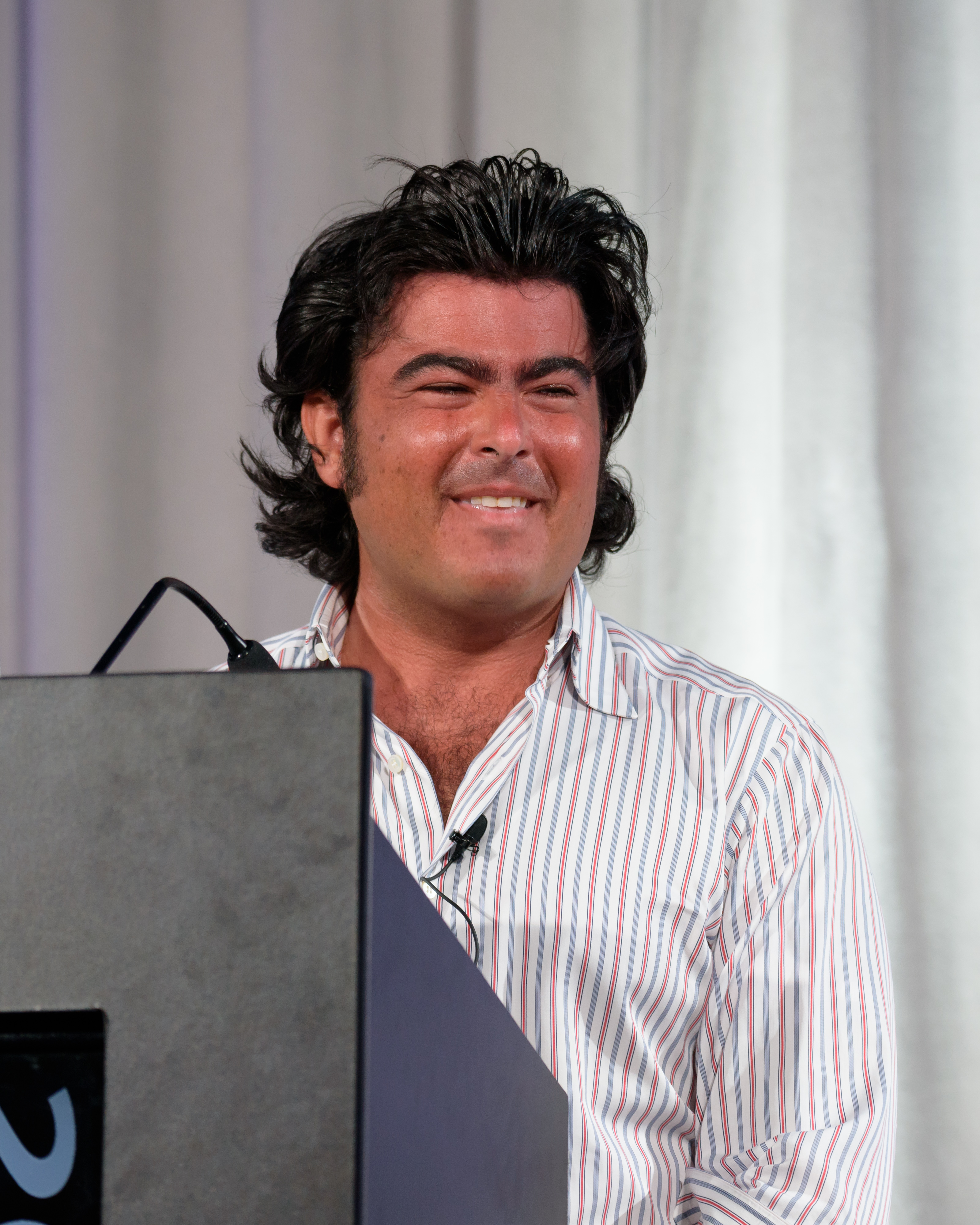 Richard Liebowitz delivering his presentation "How to Protect The Copyrights of your Published Work" at OPTIC 2019.